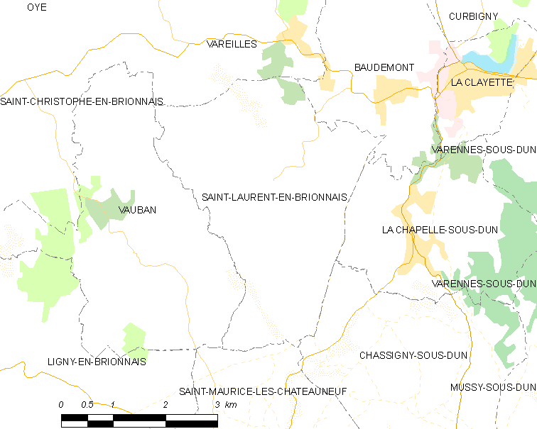 Map of French municipality